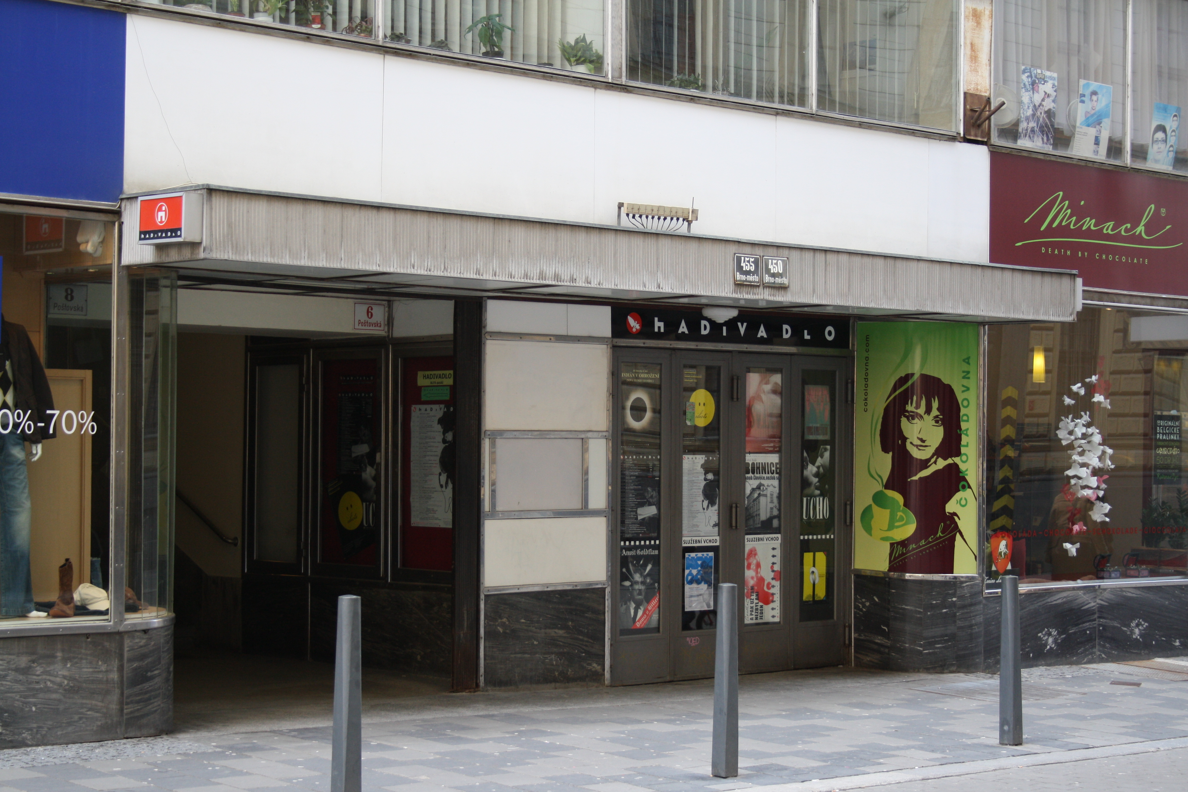 Hadivadlo entrance in Brno-Center.